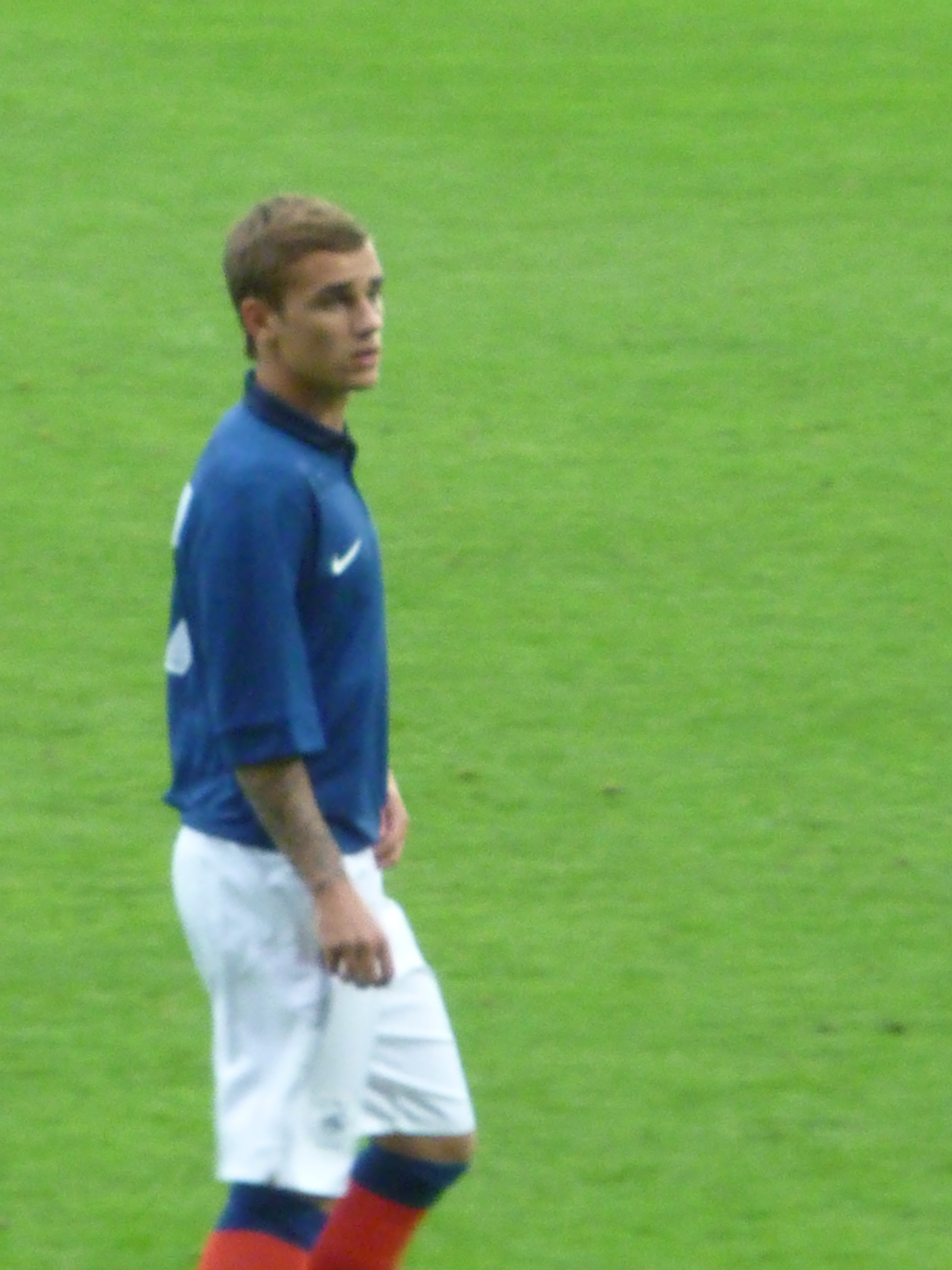 Antoine Griezmann, forward of the French U21 national team. Qualifier against Kazakhstan in Clermont-Ferrand.